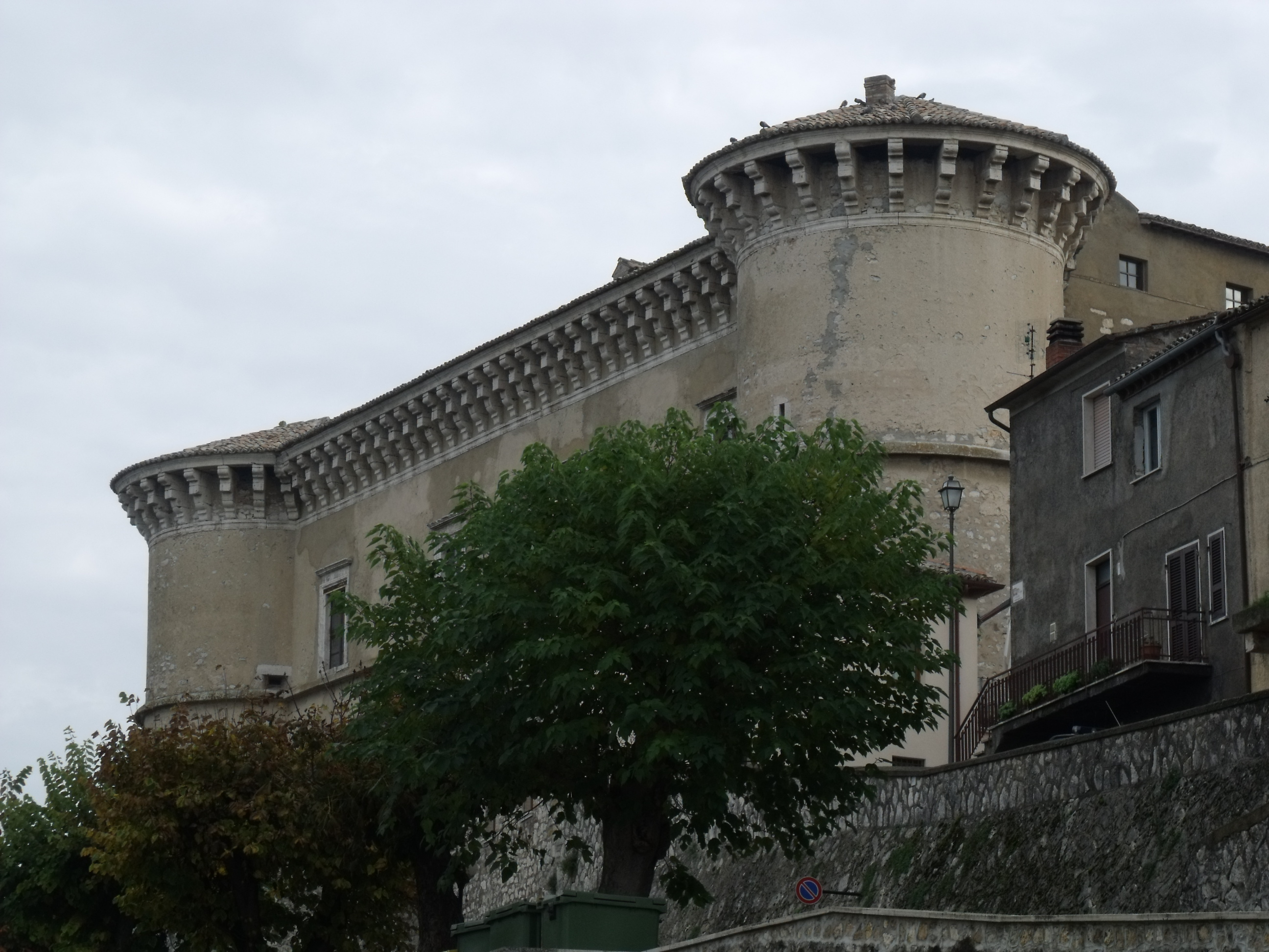 Castello di Alviano, Province of Terni, Umbria, Italy